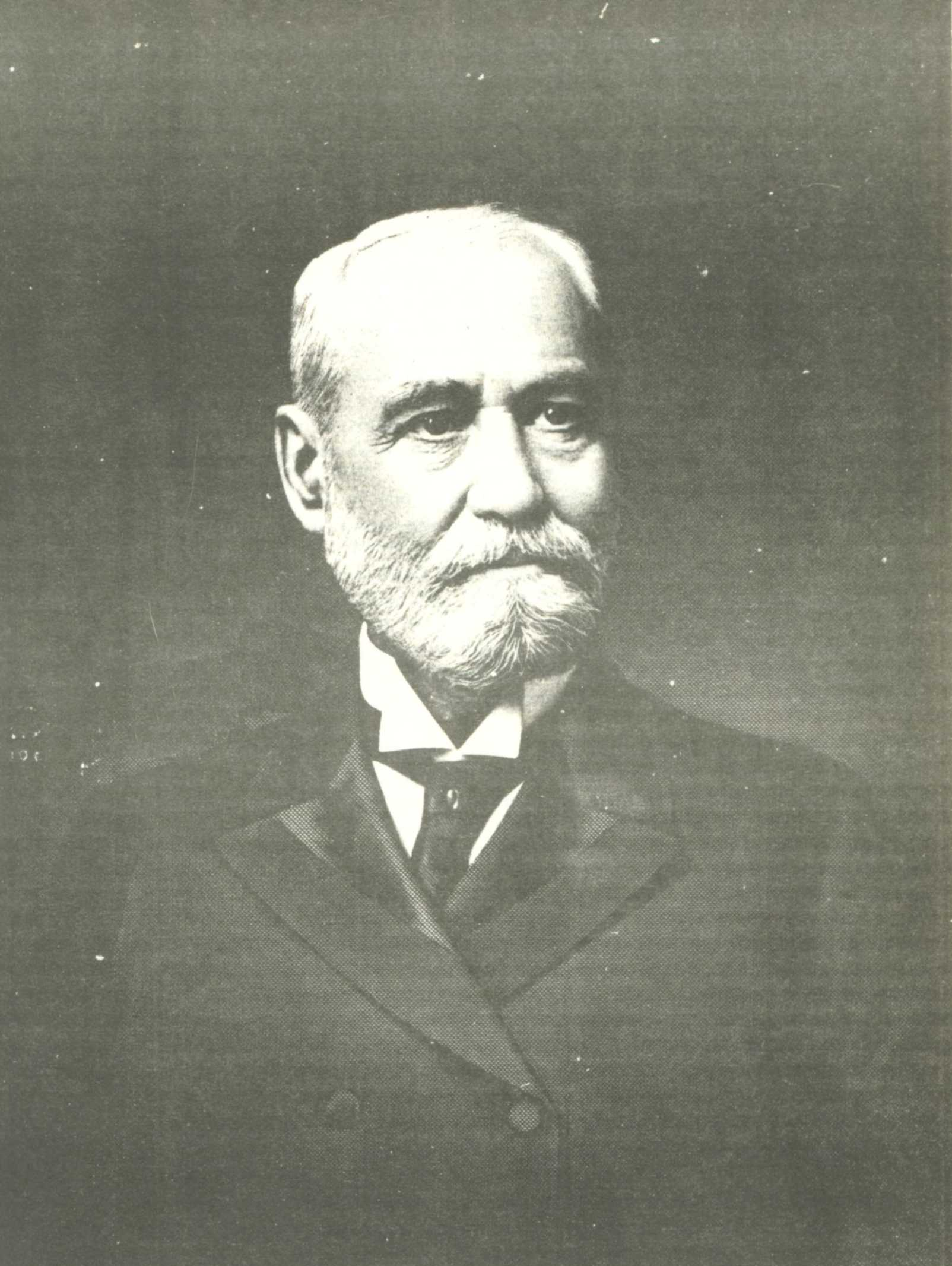 A picture of John Taylor Hamilton.